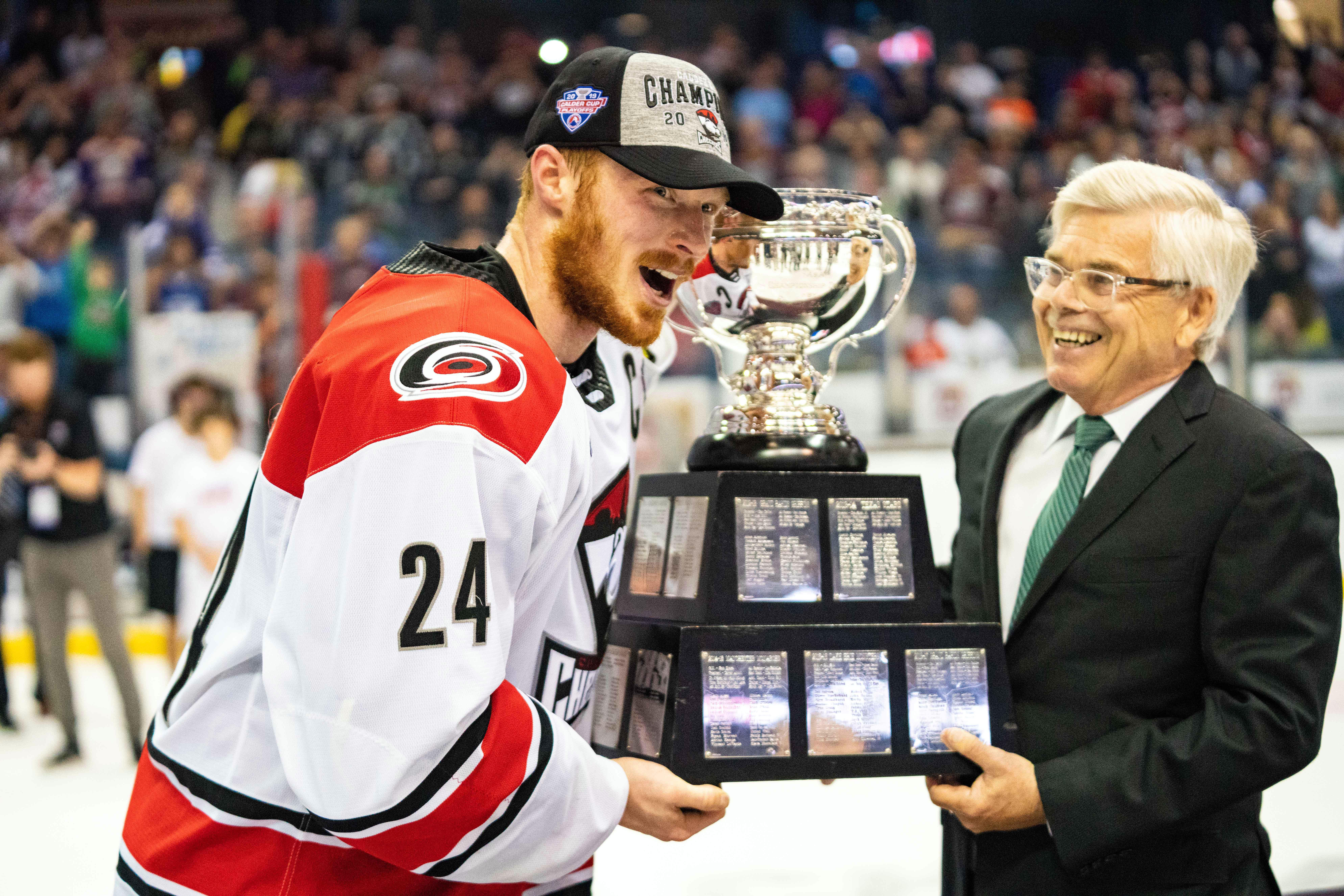 Photo: Jacob Kupferman